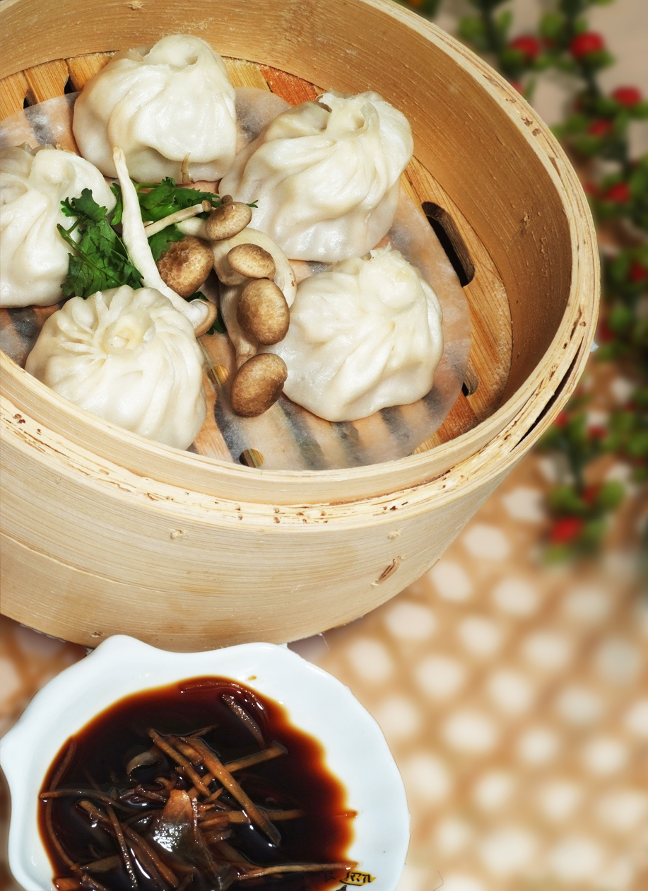 Dumplings in a basket, served the traditional way. Shots taken at Zi Yean restaurant for a magazine feature. (Lit up with one SB800 and a Gary Fong flash diffuser bounced off the ceiling.